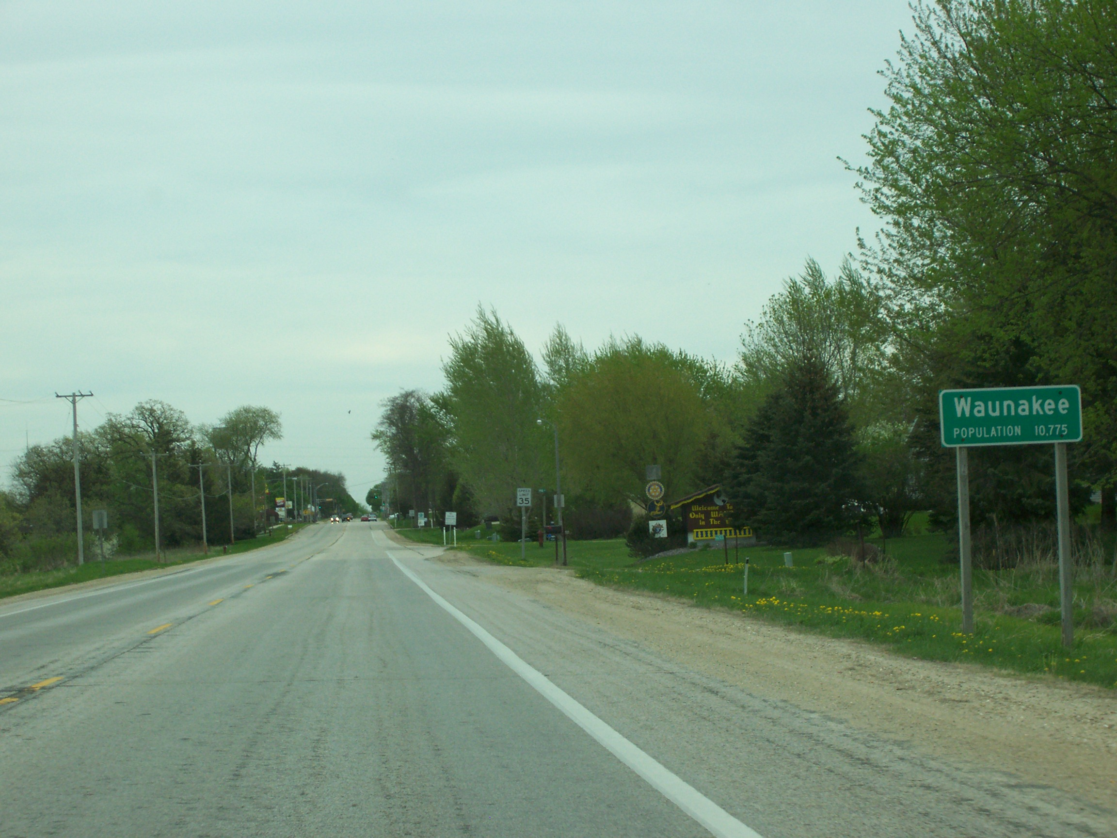 Looking east at the DOT sign Waunakee, Wisconsin, USA on Wisconsin Highway 19.